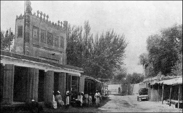 Street in Andijan, 1913 year